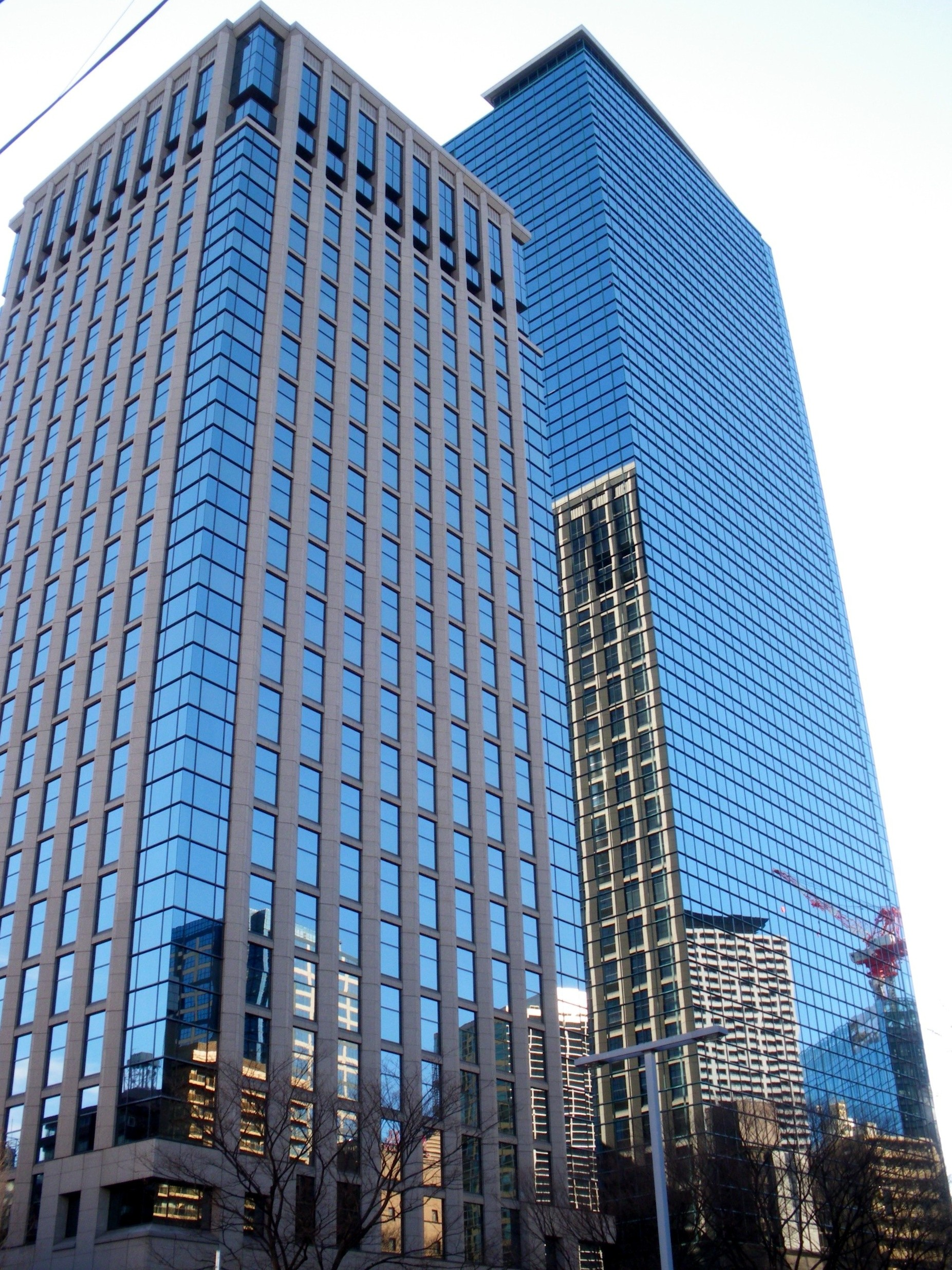 photo of Shinjuku oak city,in Shinjuku,Tokyo,Japan.